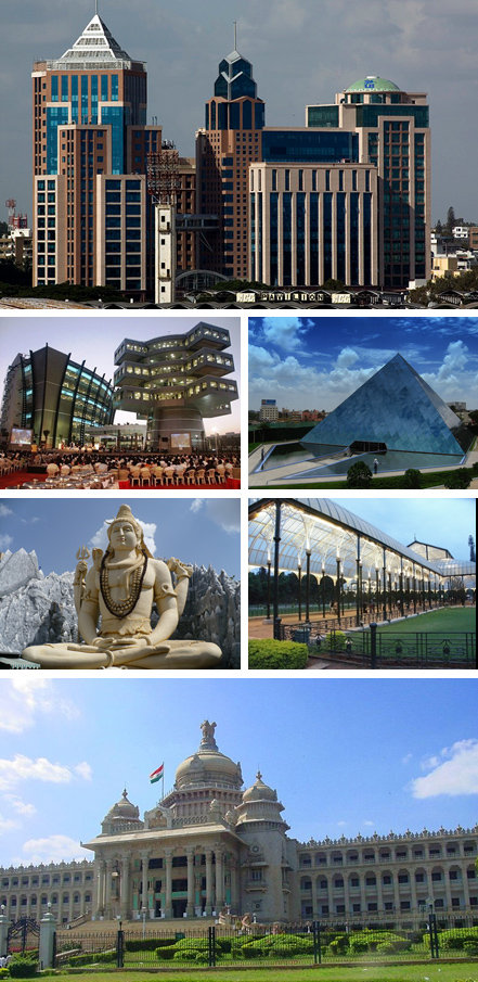 Source: UB City: Infosys: Lalbagh Garden: Vidhana Soudha: Shiva Kempfort: Whitefield